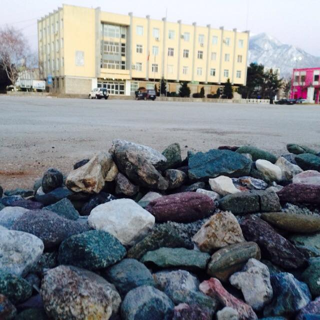 Kukes